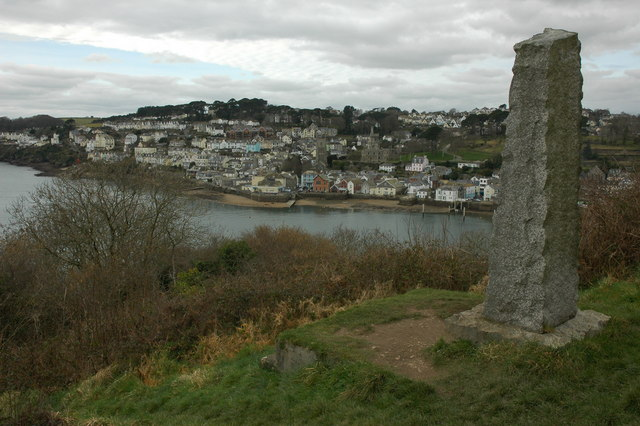 The Sir Arthur T. Quiller-Couch Monument The Sir Arthur T. Quiller-Couch Monument with Fowey in the background.